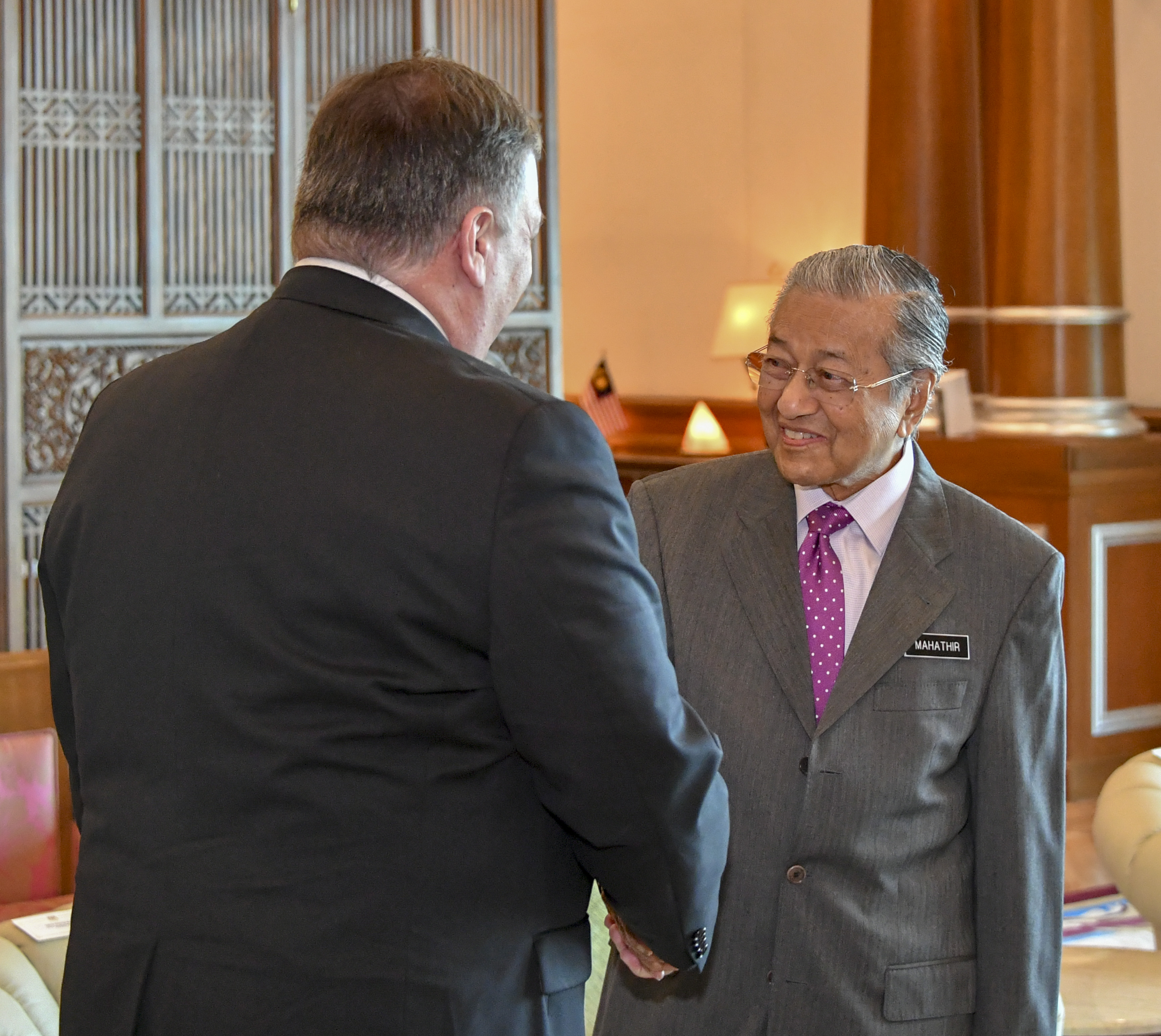 Secretary of State Michael R. Pompeo meets with Malaysian Prime Minister Tun Dr. Mahathir Mohamad at the Prime Minister's Office in Putrajaya, Malaysia, on August 3, 2018. [State Department Photo / Public Domain]